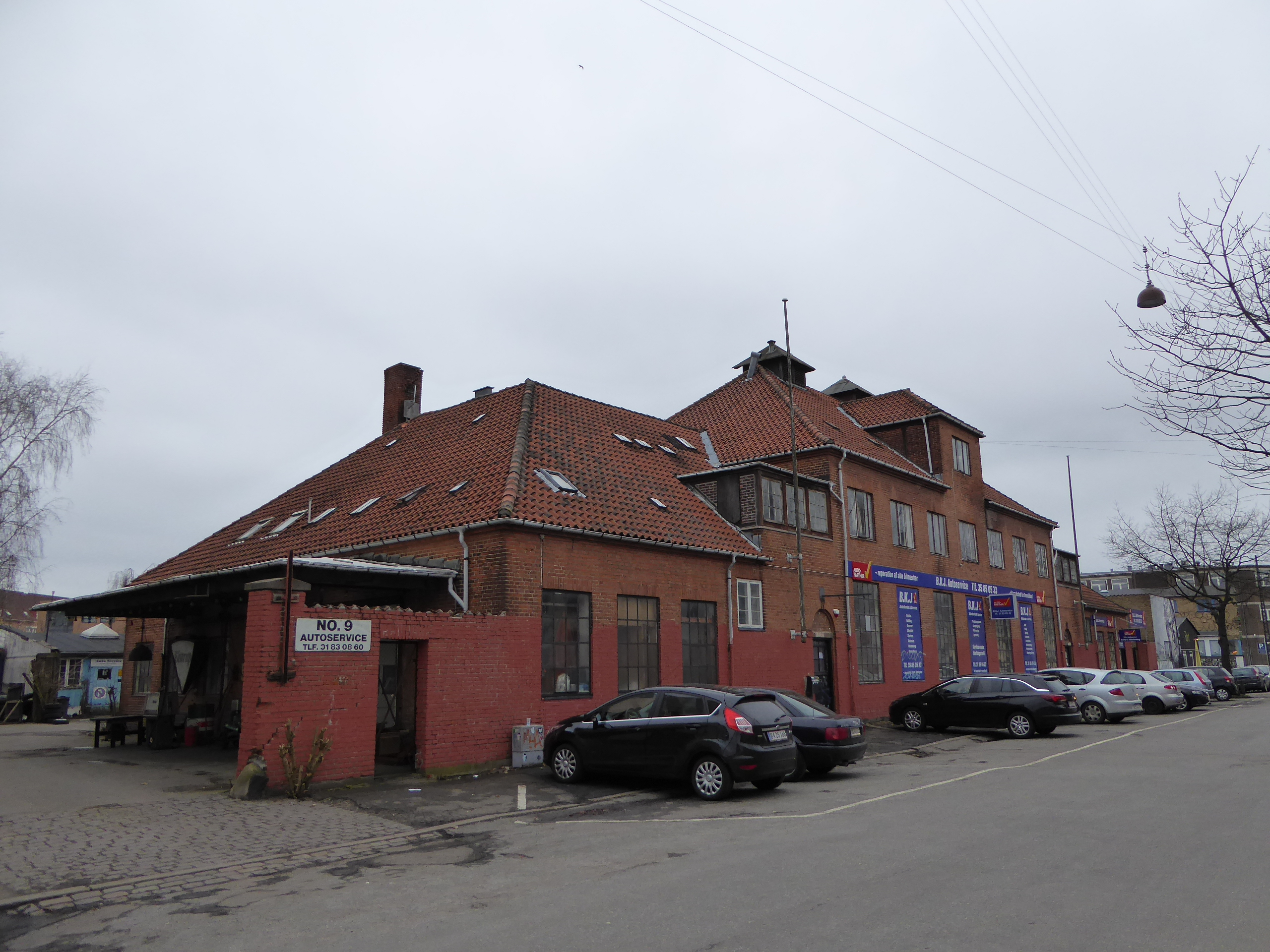 The automobile repair shop BKJ Autoservice at Vermundsgade in Østerbro in Copenhagen.